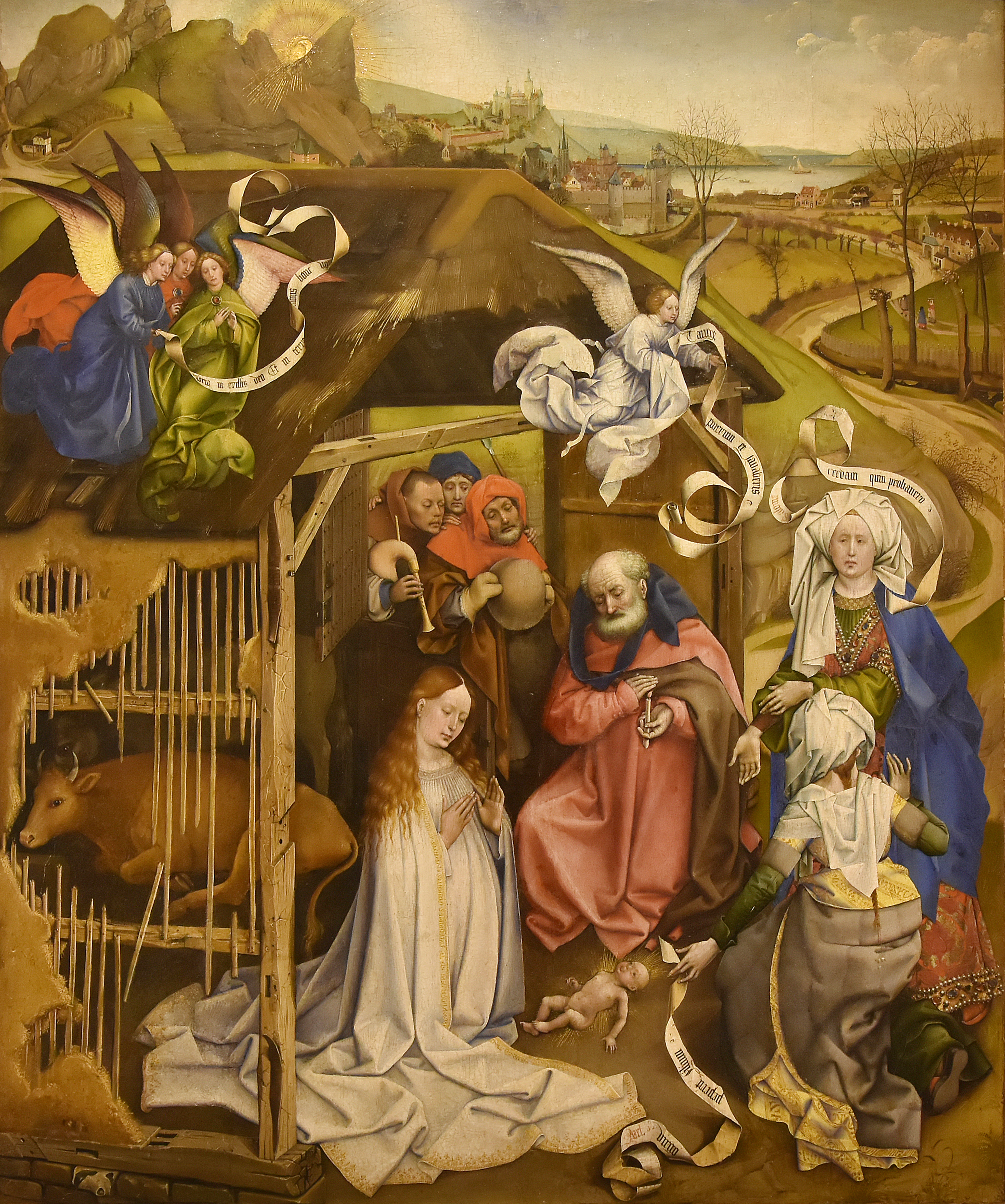 Nativity